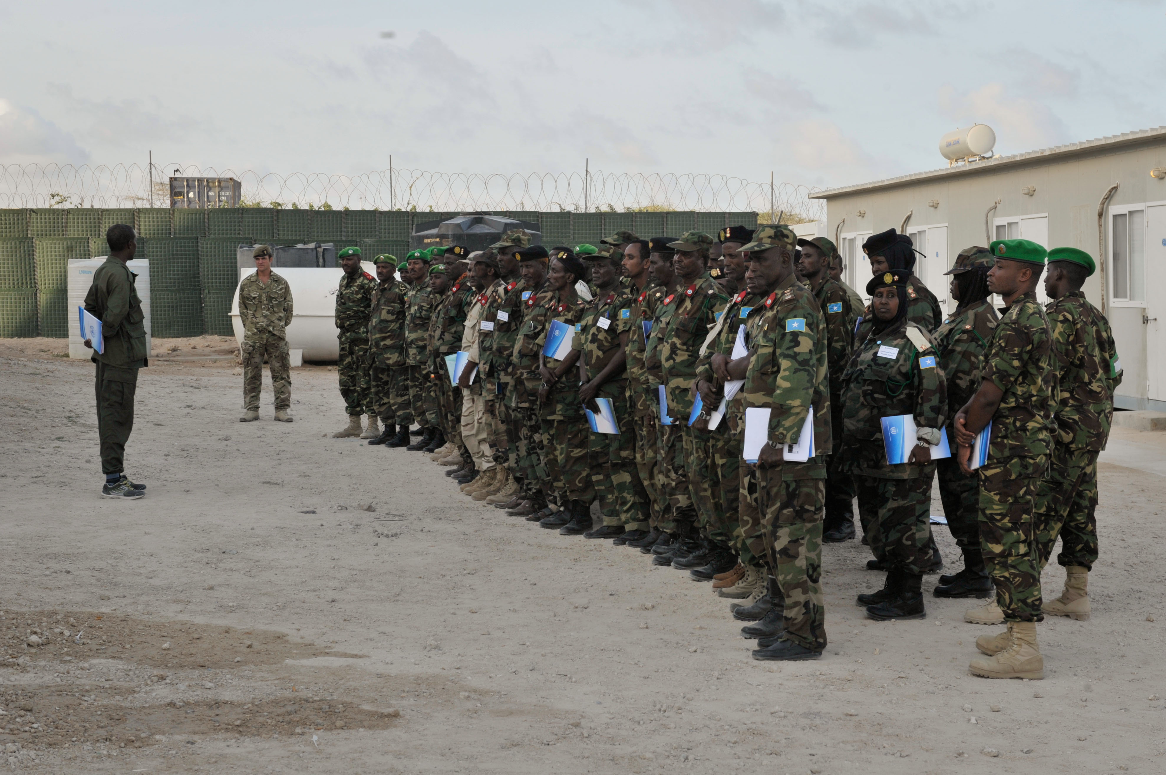 The United Nations Assistance Mission for Somalia (UNSOM) has today concluded a training of trainers' course for African Union and Somali National Army officers on human rights. The trainees, who are already instructors in their respective military sectors, have been charged with sharing the knowledge acquired during the one week training course with their colleagues. AMISOM Photo / Tobin Jones